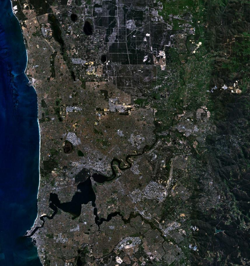 This is a map of the Swan River, Western Australia, made with World Wind using Landsat 7 data.